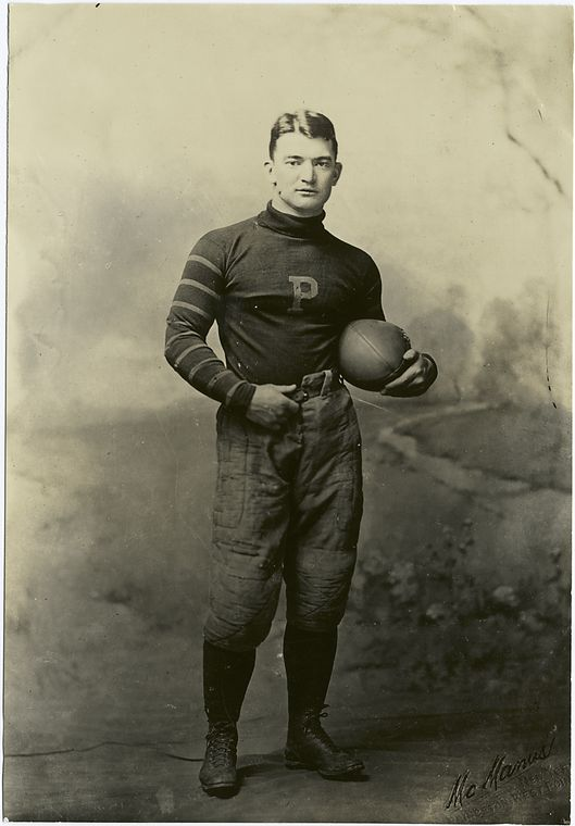 Johnnie Poe, Princeton, circa 1892